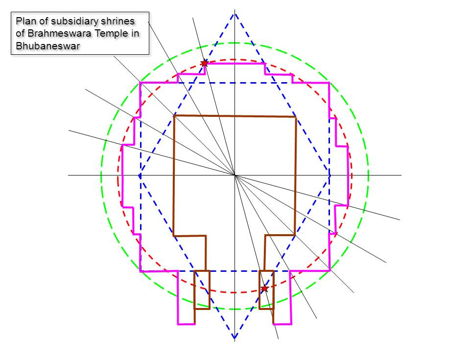 Plan of a subsidiary shrine of the Brahmeshvara temple in Bhubaneswar. How to draw a plan of sikhara with 5 rathas : 1-Green color : a circle with in black color 24 rays (only 14 are drawn to simplify the drawing). 2-Blue color : square inscripted in the circle. Two equilateral triangles joined by a median of the square. 3- 2 intersection points (red stars) between the two triangles and the rays on part of those of the cardinal points. 4-Red color : a concentric circle passing through these points of intersection (8 points with all the symmetries). 5-Magenta color : drawing of the plan of the rathas. 6-Brown color : the walls of the inner space. Based on intersections of the triangles and some rays.